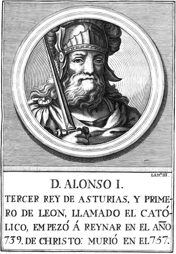 King Alonso I of Asturias